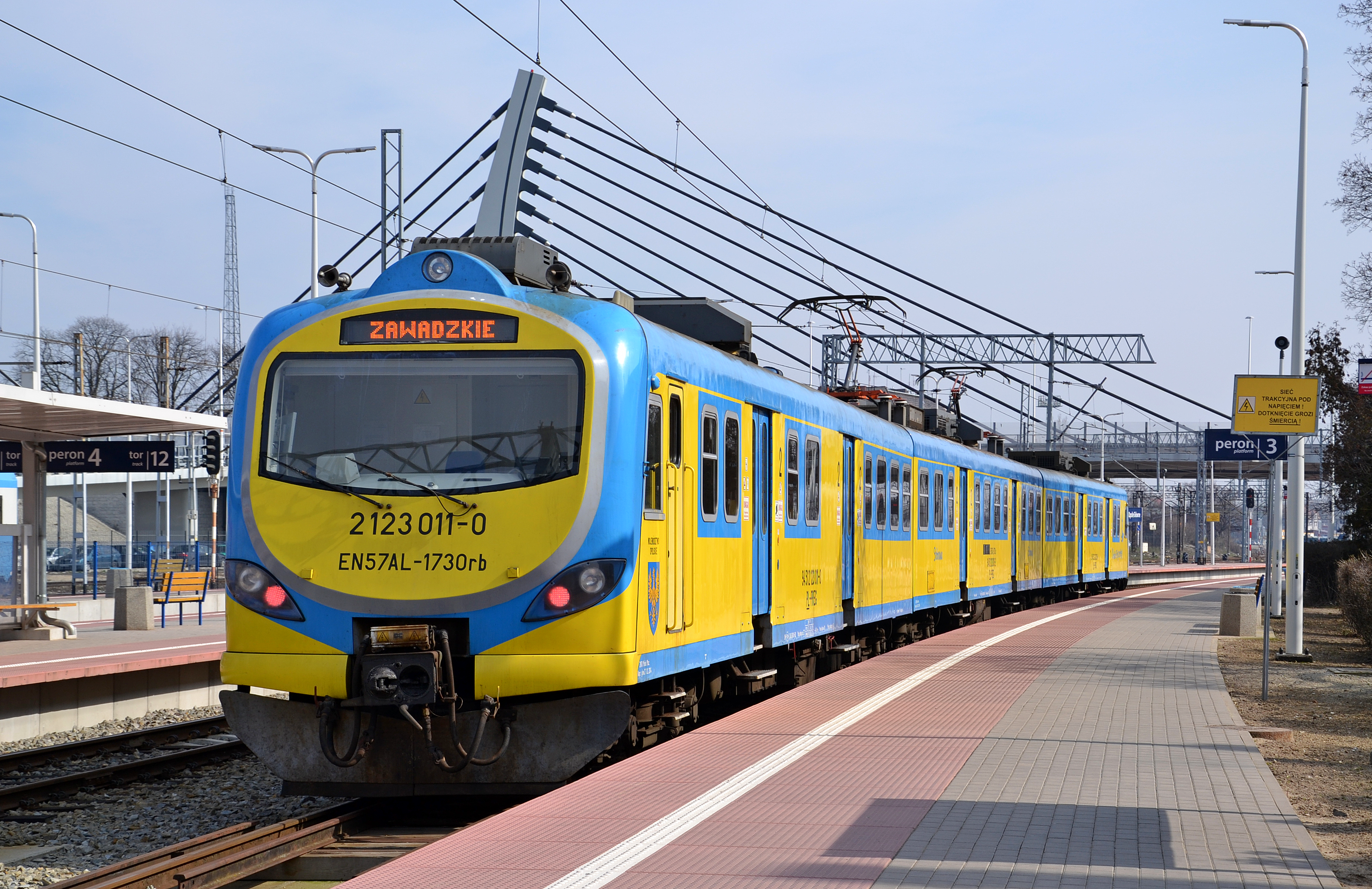 Electric multiple unit EN57AL in Opole (Oppeln), Silesia